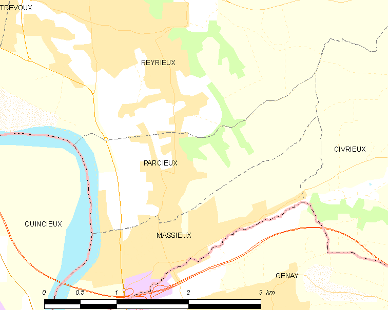 Map of French commune: Parcieux Map commune FR insee code 01285.png